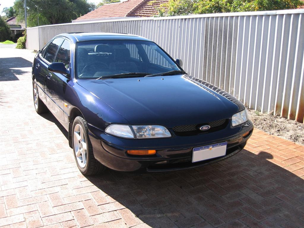 1995 Ford Telstar TX5 (AY) Ghia hatchback, photographed in Western Australia, Australia.